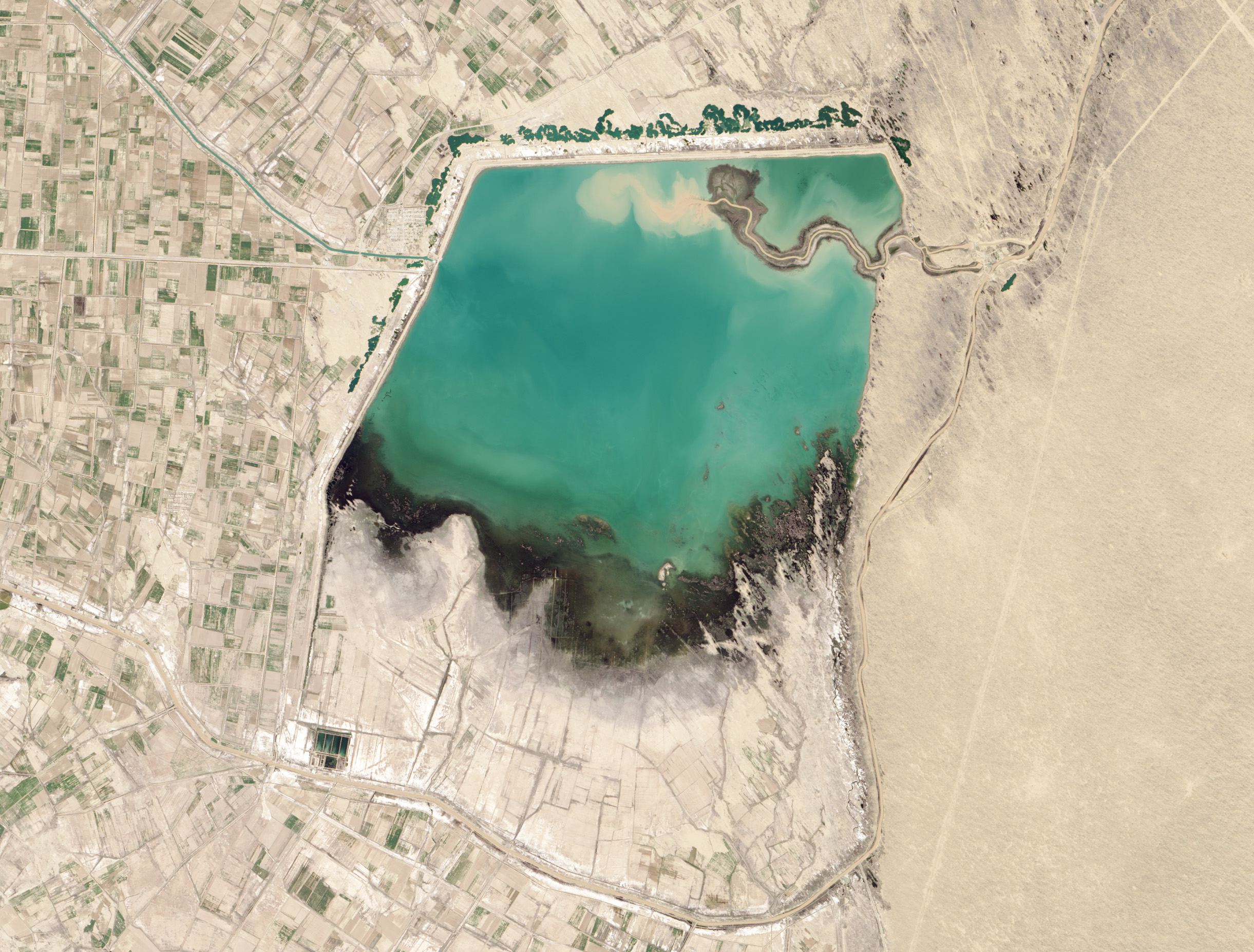 In this natural-color Landsat 8 image acquired on April 18, 2014, the Hanhowuz (Khauzkhan) Reservoir jumps out as a splash of turquoise amidst desert browns. The reservoir was constructed in a natural depression to capture winter runoff and overflow from the canal for use later during the driest periods of summer. Phytoplankton thrive in the warm waters, as do many commercial fish—including Aral barbel, asp, and catfish.